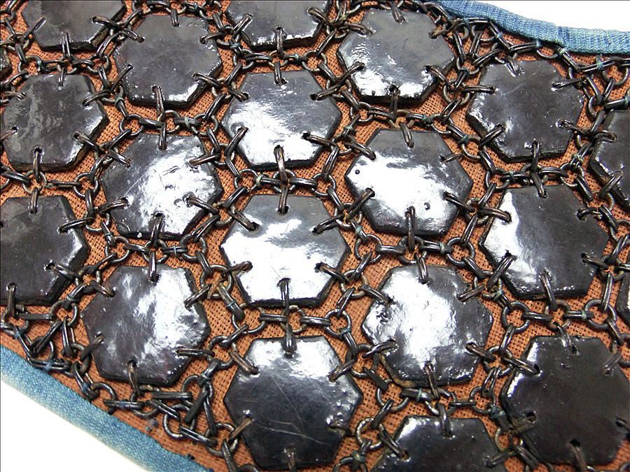 Close up picture of the kikko armor of Japanese (samurai) kikko wakibiki.